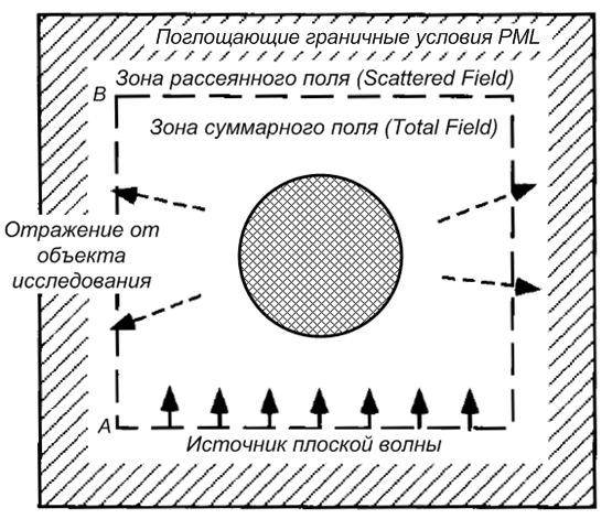 FDTD Total Field Scattered Field